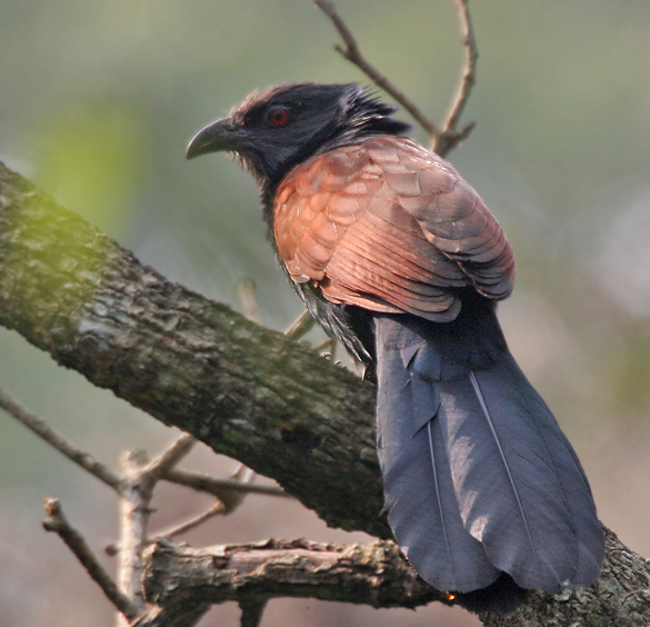 Greater Coucal Centropus sinensis at Narendrapur near Kolkata, West Bengal, India.